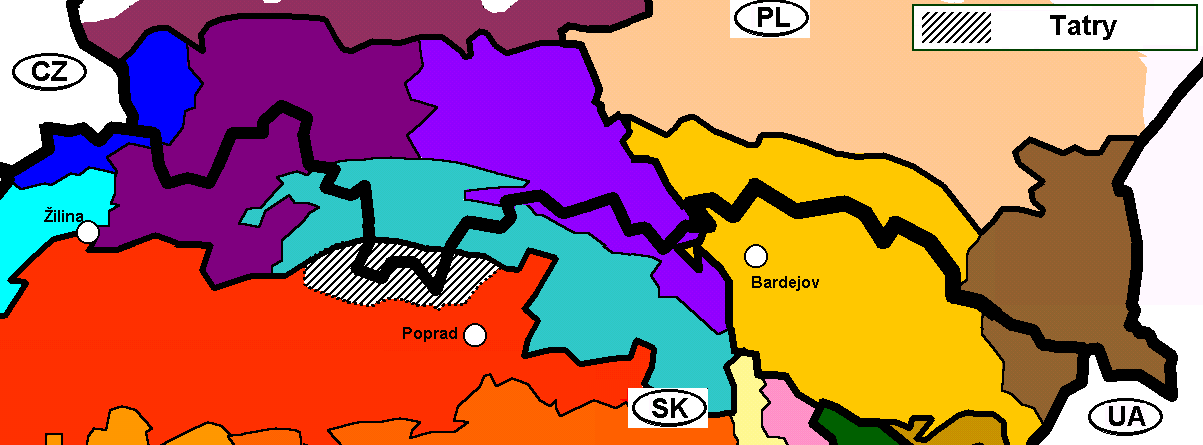 Tatry